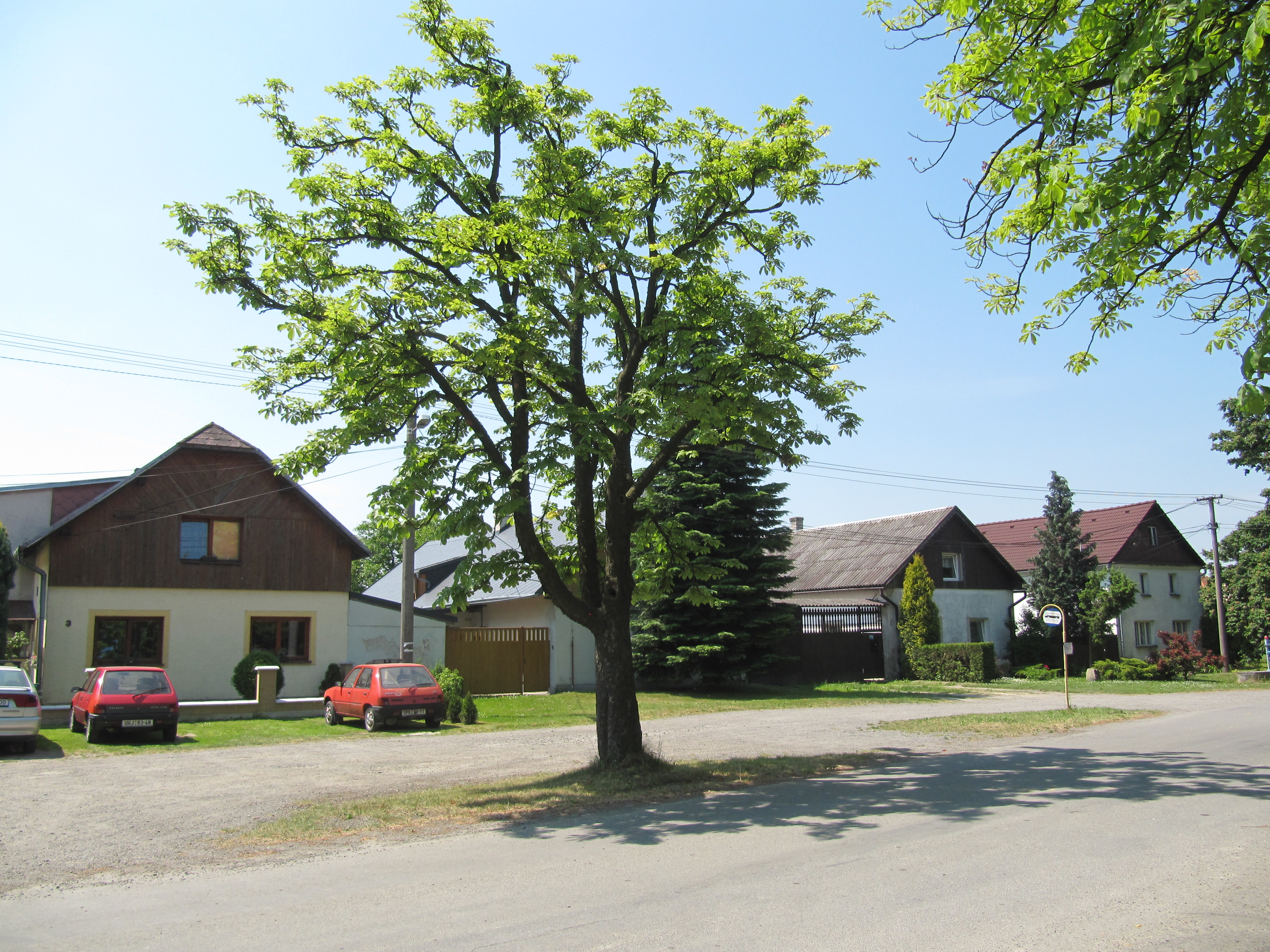 Vítkov, Opava District, Czech Republic, part Jelenice.